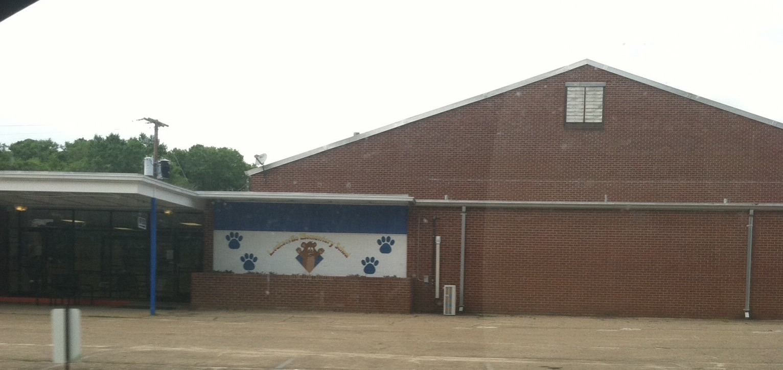 Leaksville Elementary School - 175 Annex Road Leaksville, MS 39451